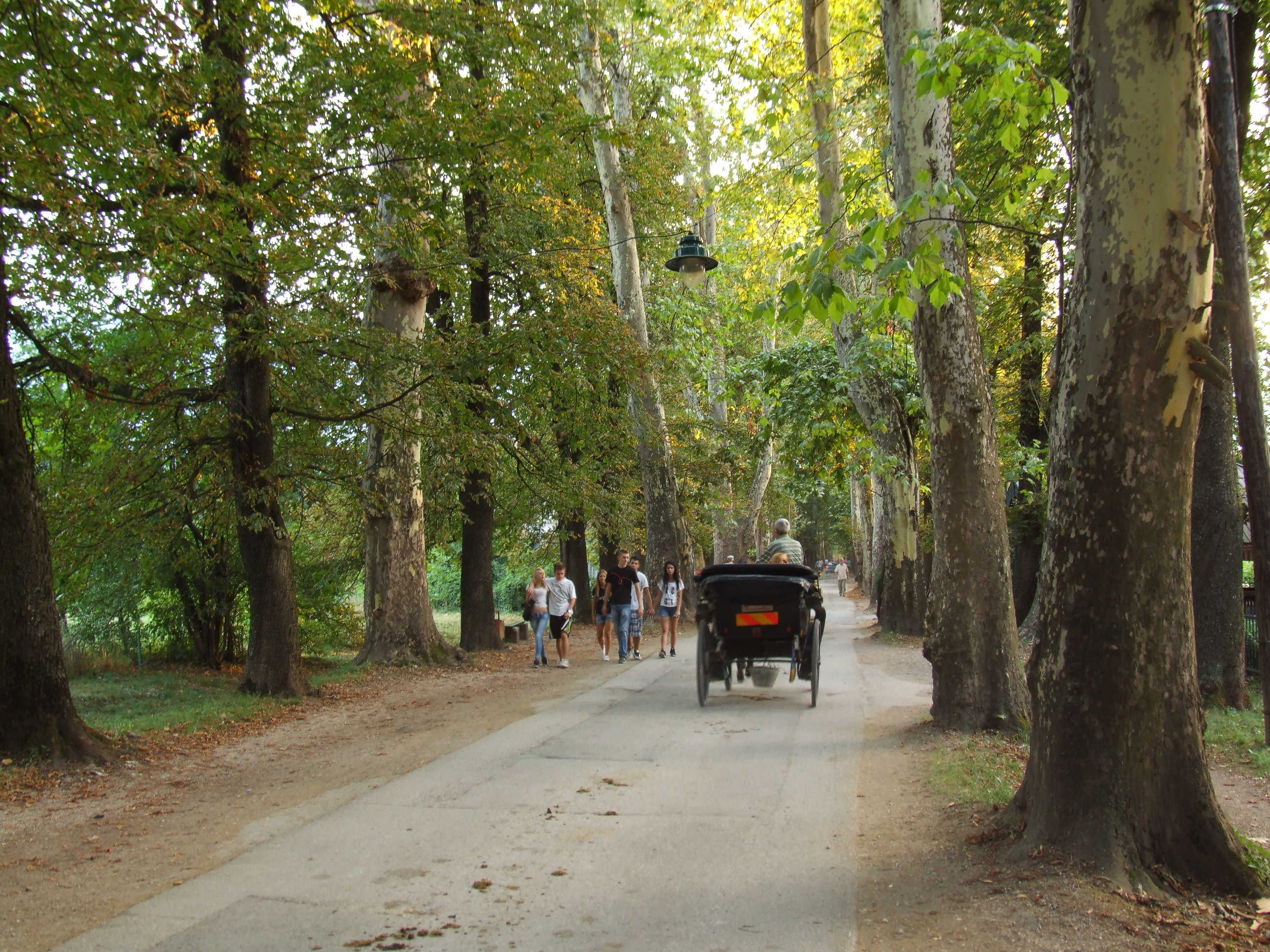 Ilidža, BiH - Great alee